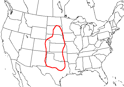 A map of the united states with Tornado Alley outlined, here defined as the area where approximately 1 day or greater per decade was near (25 mi; 40 km) a significant (F2 or stronger) tornado.